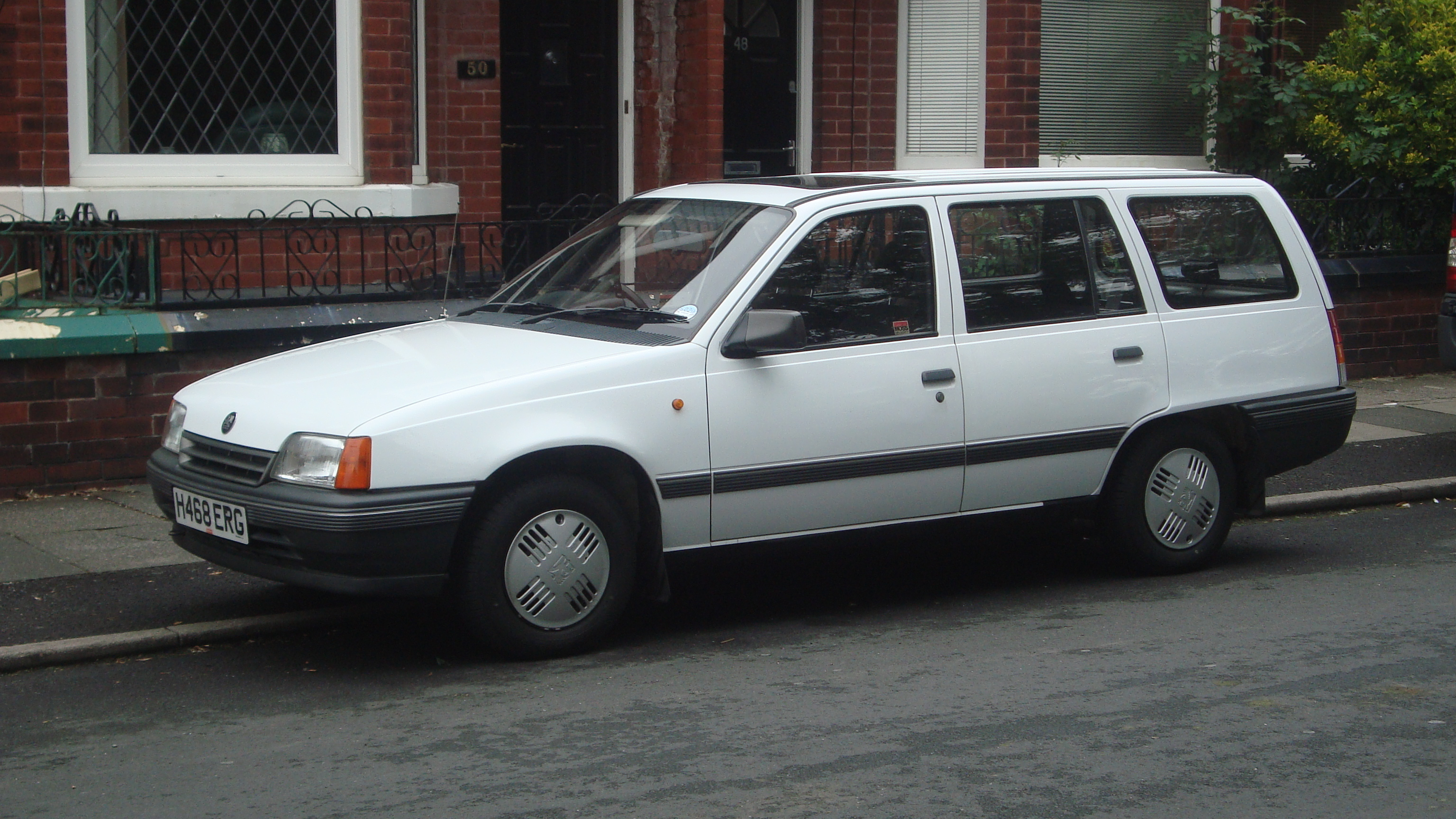 Finally got a better shot of it